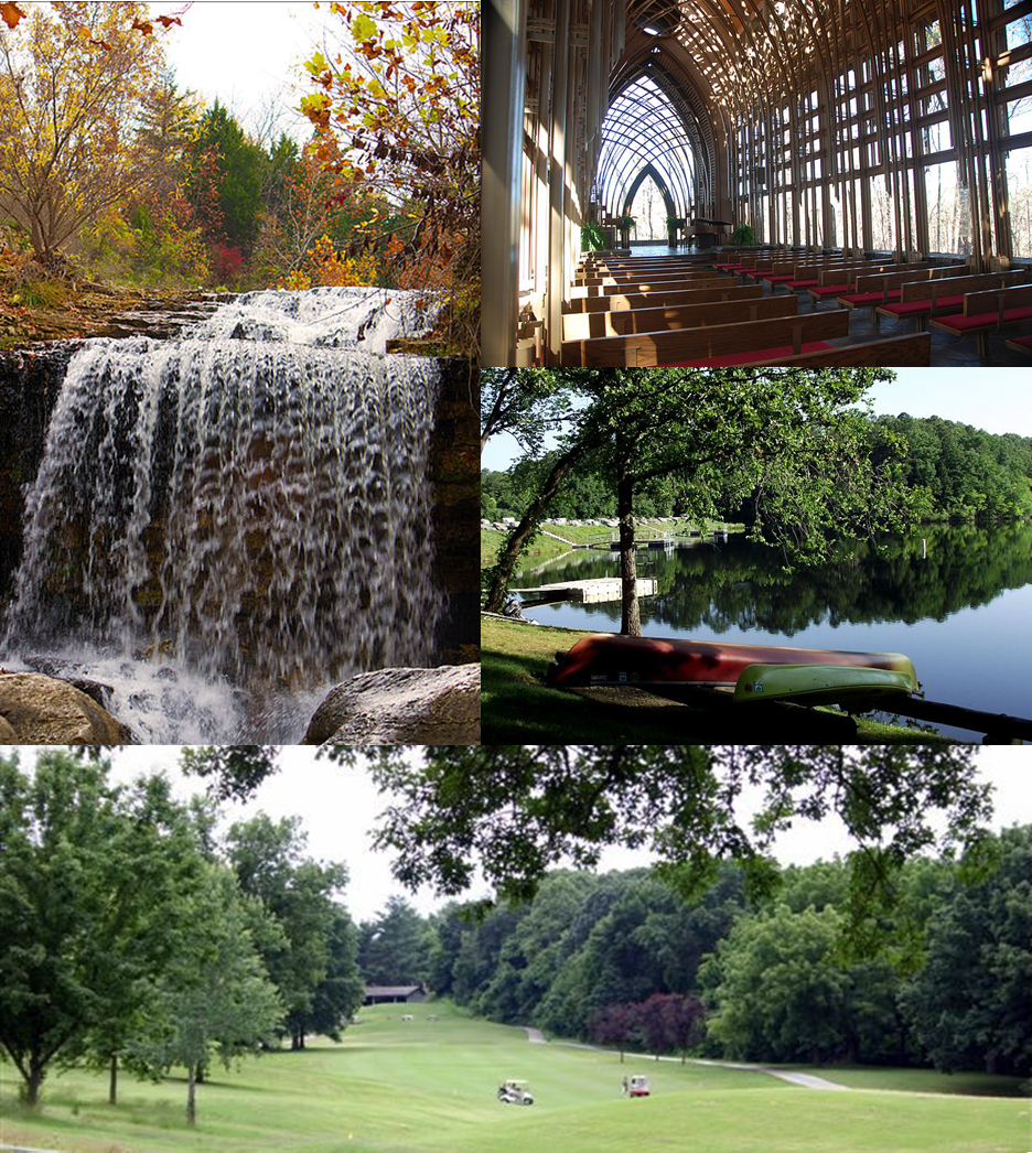 Collage of Bella Vista, Arkansas